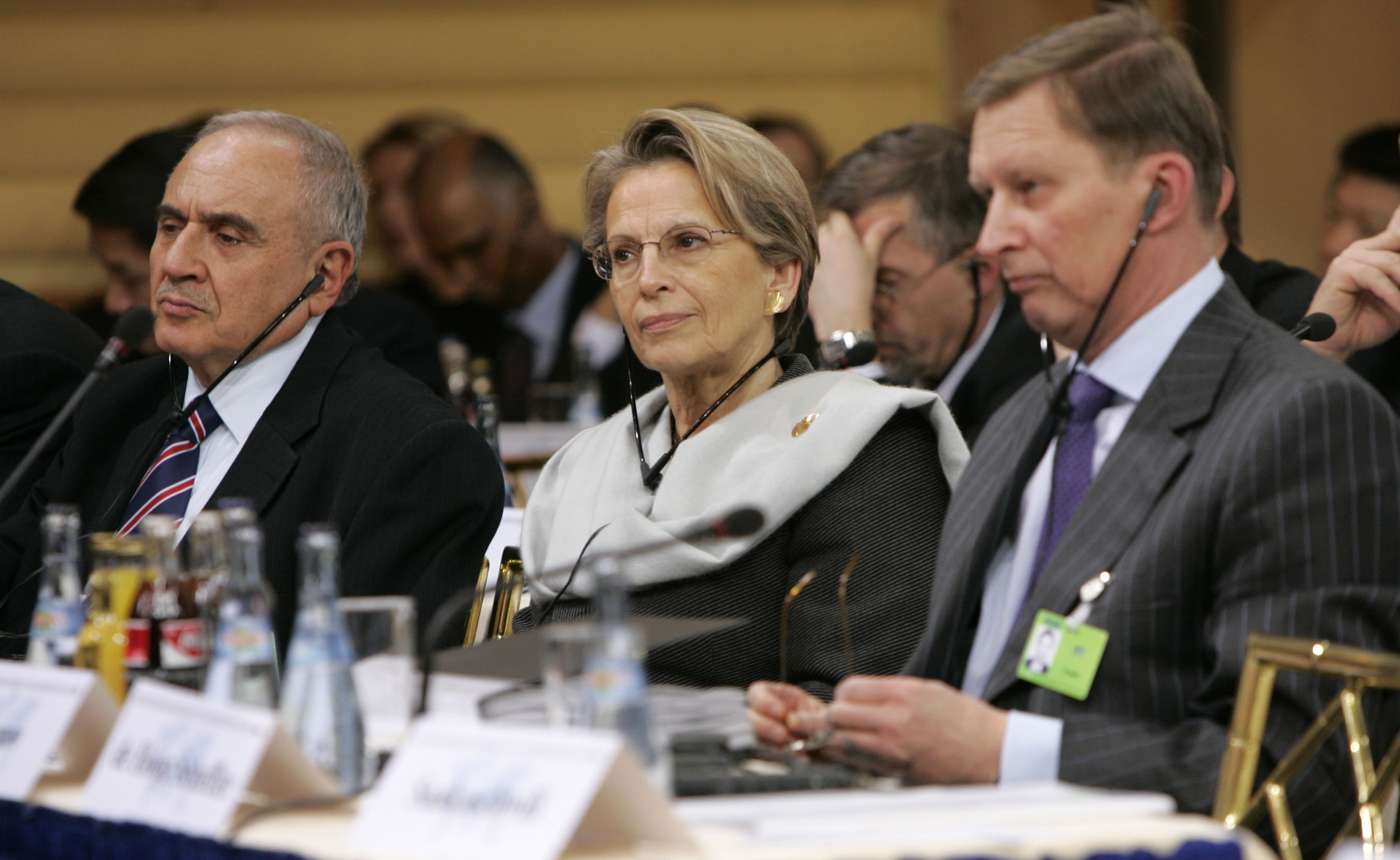 42nd Munich Security Conference 2006: (From left:)Vecdi Gönül, Minister of Defense, Turkey, Michèle Alliot-Marie, Minister of Defense, France, Sergey B. Ivanov, Deputy Prime Minister and Minister of Defense, Russian Federation.